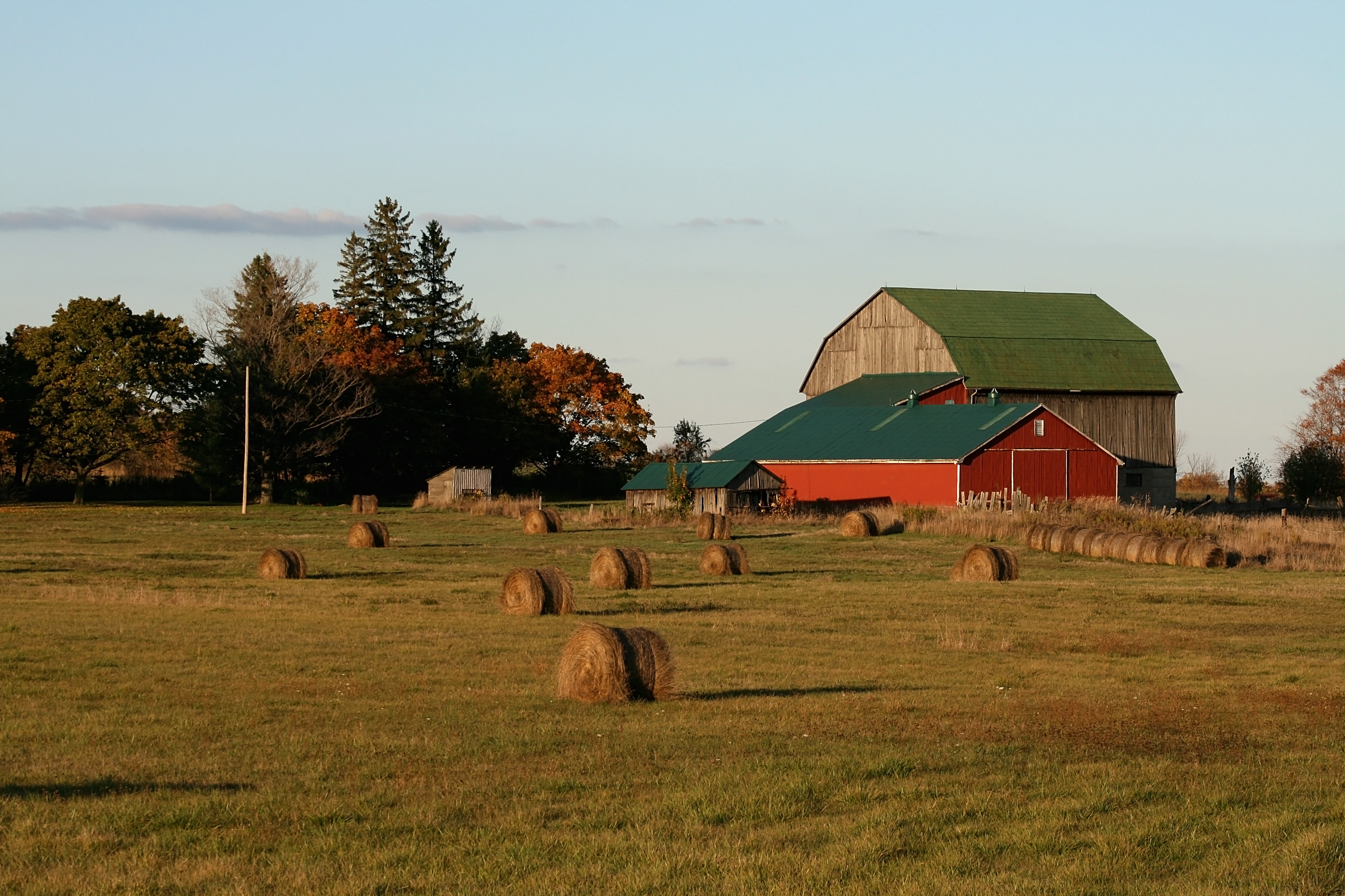 Barn in Rural Ontario, Canada.